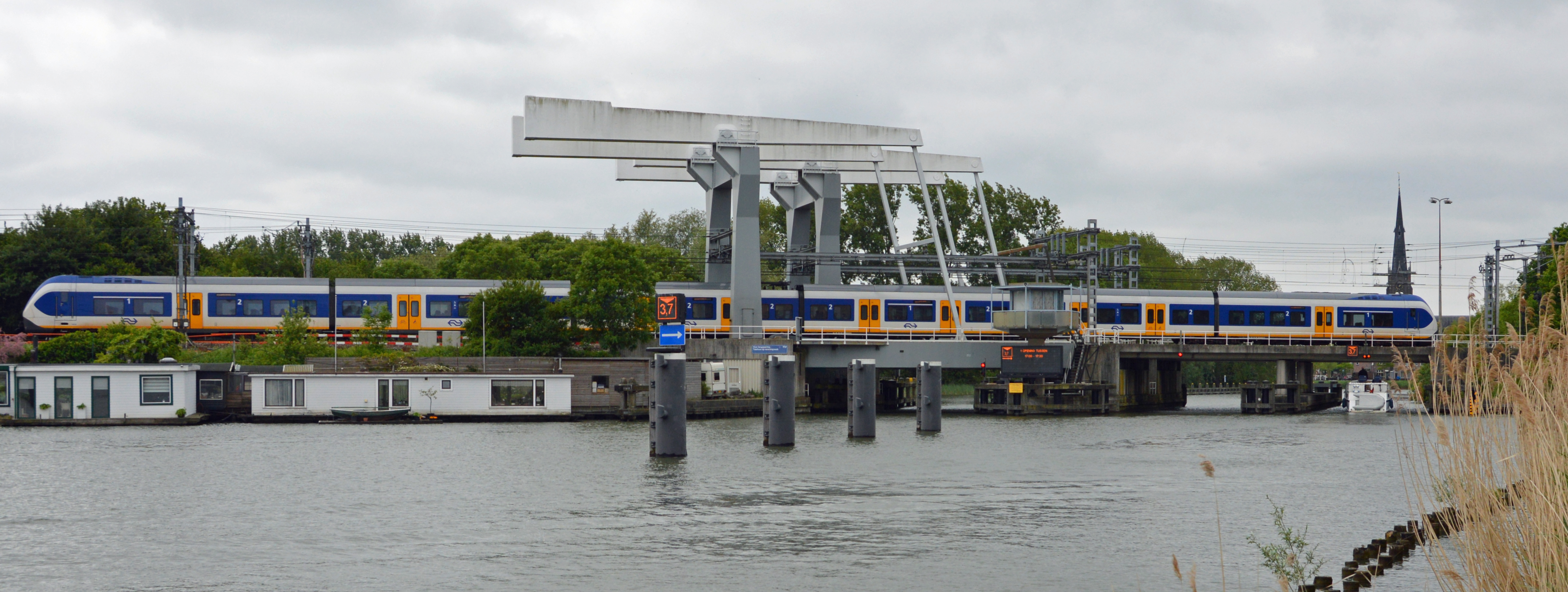 A Sprinter train to Schiphol Airport and Hoofddorp passes the bridge over the Vecht in Weesp, near Amsterdam.